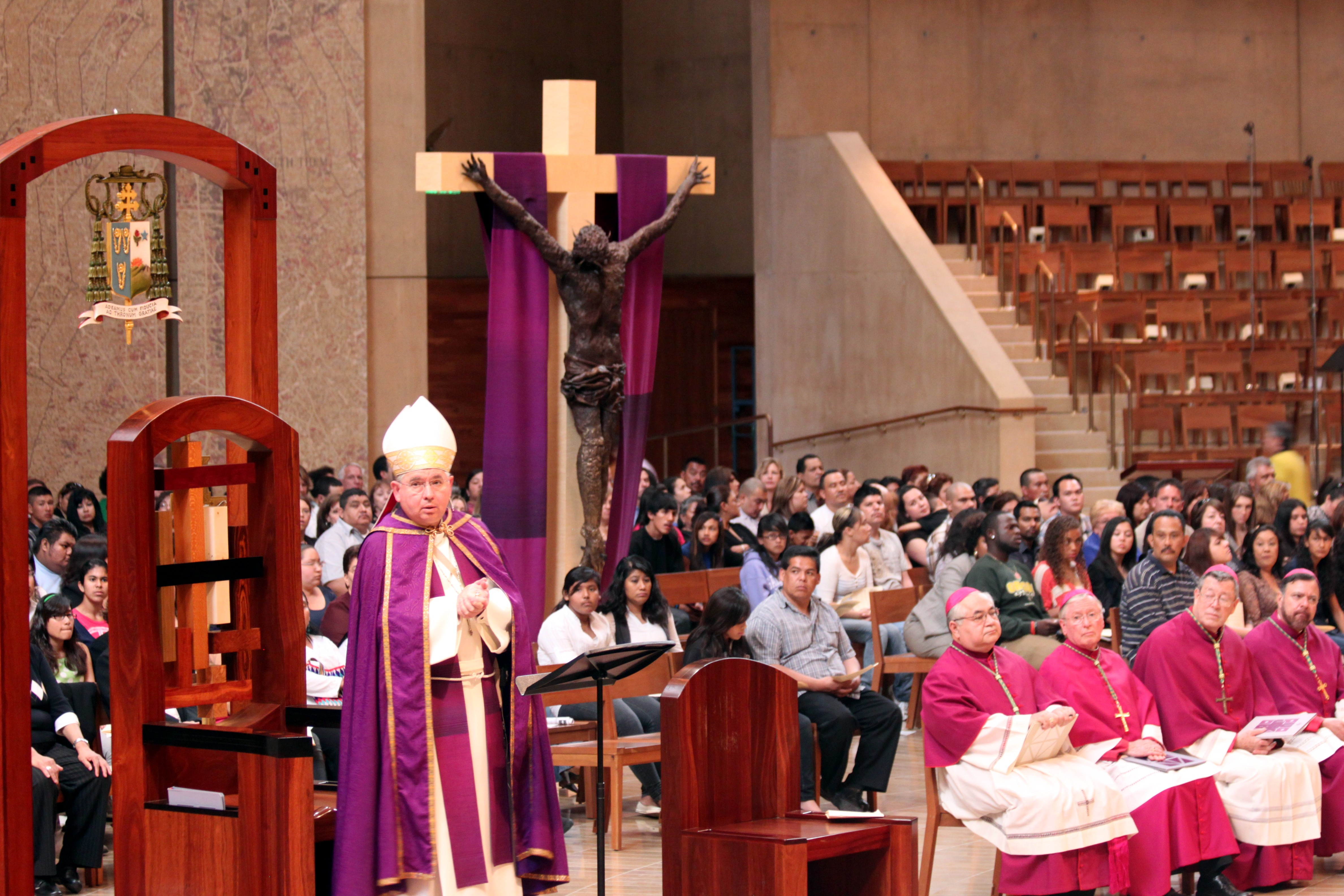 Cathedral Our Lady Of The Angels, DownTown Los Angeles, California